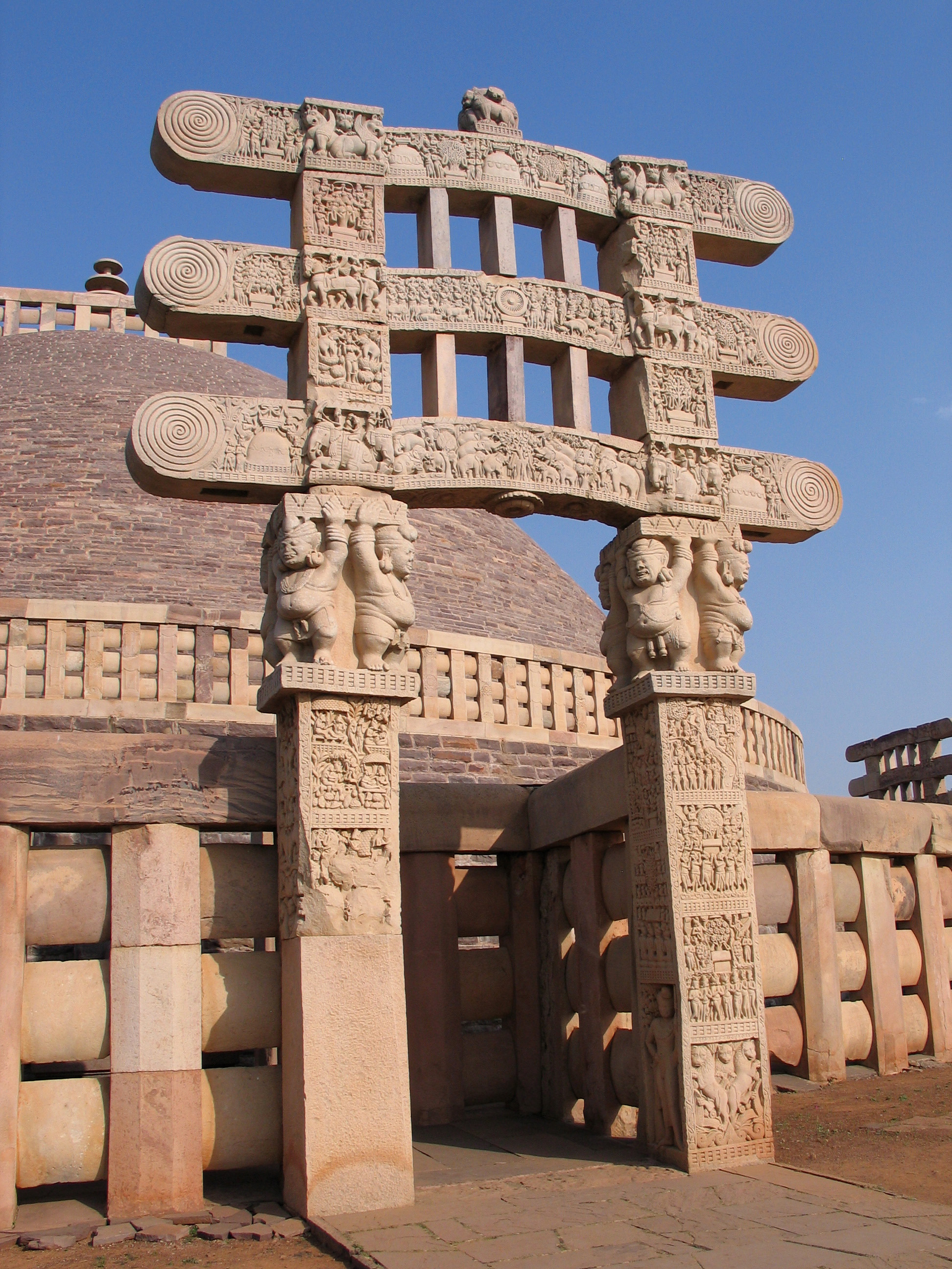 Sanchi Great Stupa: west gateway